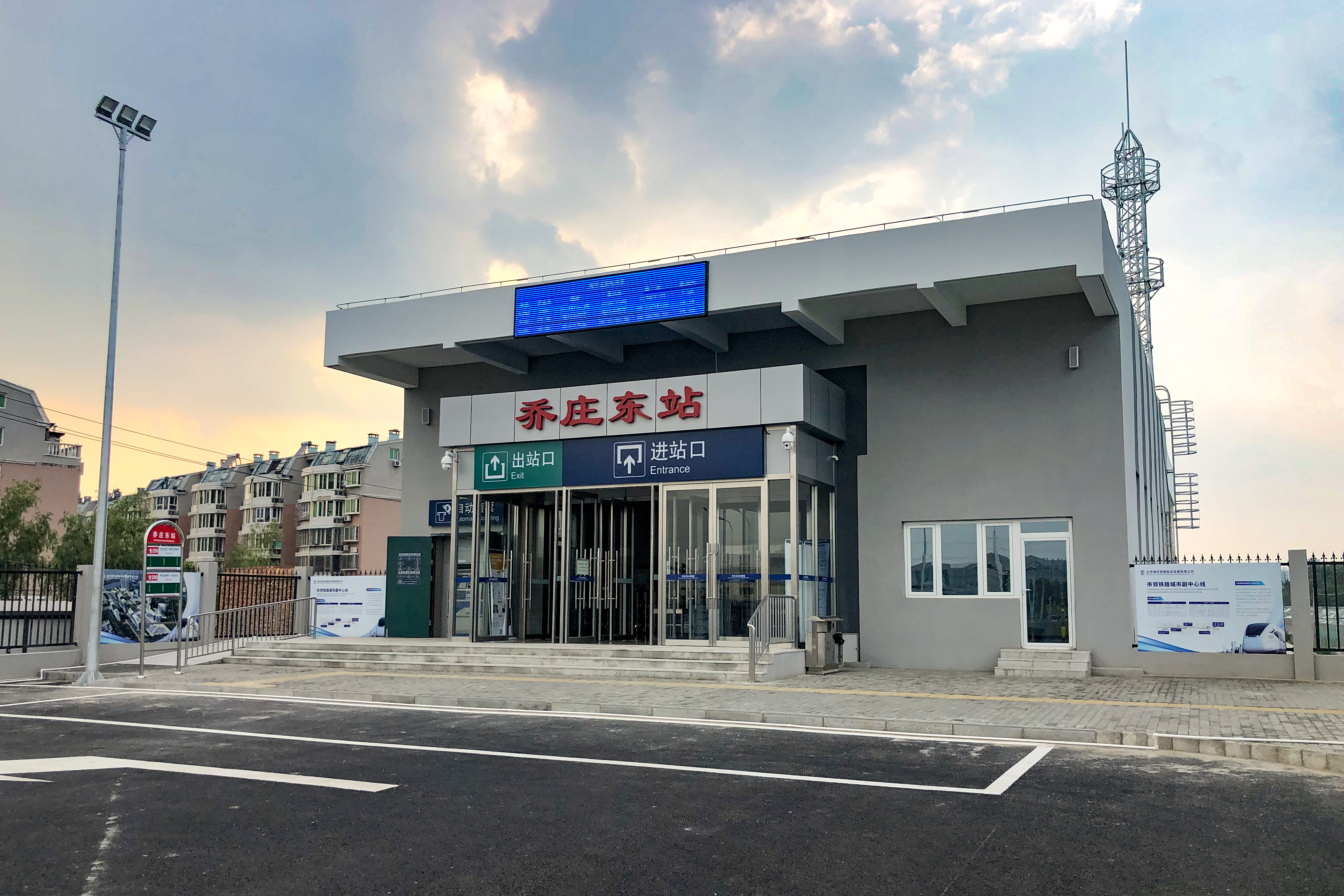 TMIS code: 11096; Commercial code: QEP. That's enough...